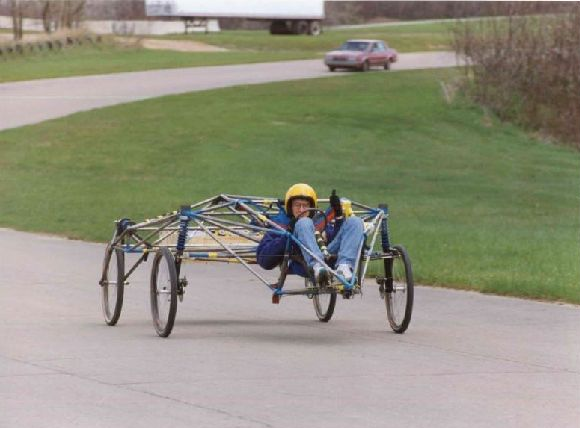 Maize & Blue 1993 University of Michigan Solar Car Team test chassis at the Ford Proving Grounds in 1992.